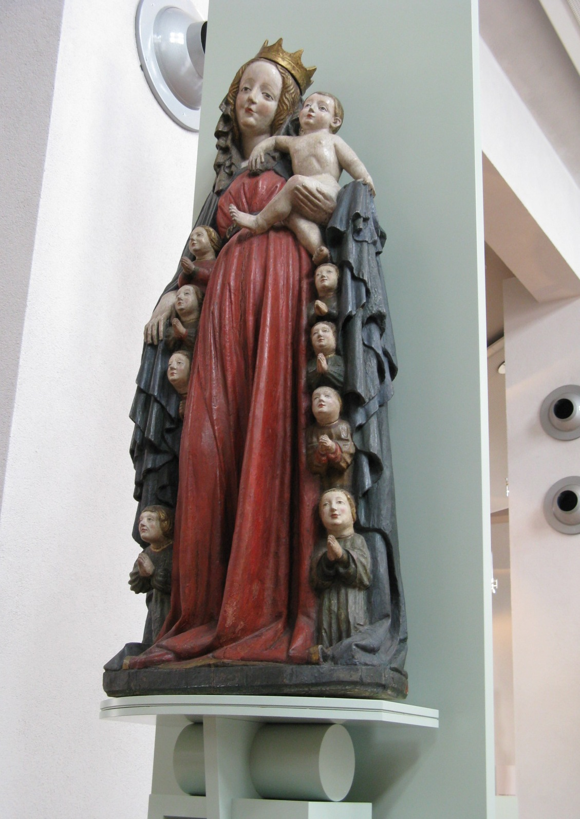 Virgin of Mercy, Swabian round about 1430 (Dominicans Museum, Rottweil, Germany; originally this Madonna was placed in the church of Dietingen-Gößlingen (administrative district of Rottweil, Germany)